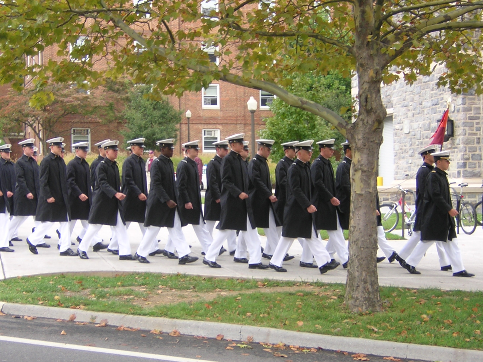 A group of Cadets from Virginia Tech's Corps of Cadets march in formation